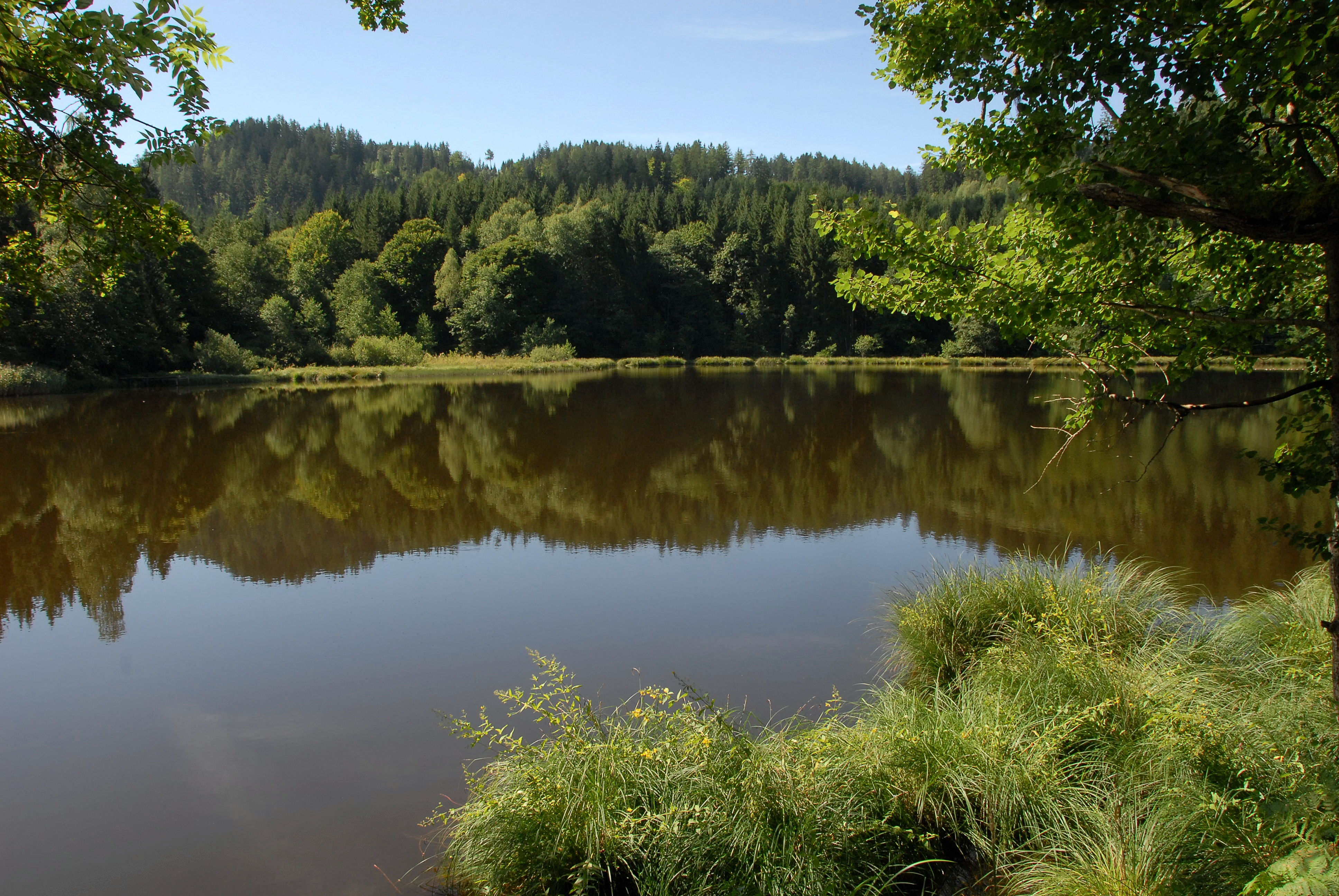 Pond near the locality Tauern in the municipality Ossiach, district Feldkirchen, Carinthia, Austria